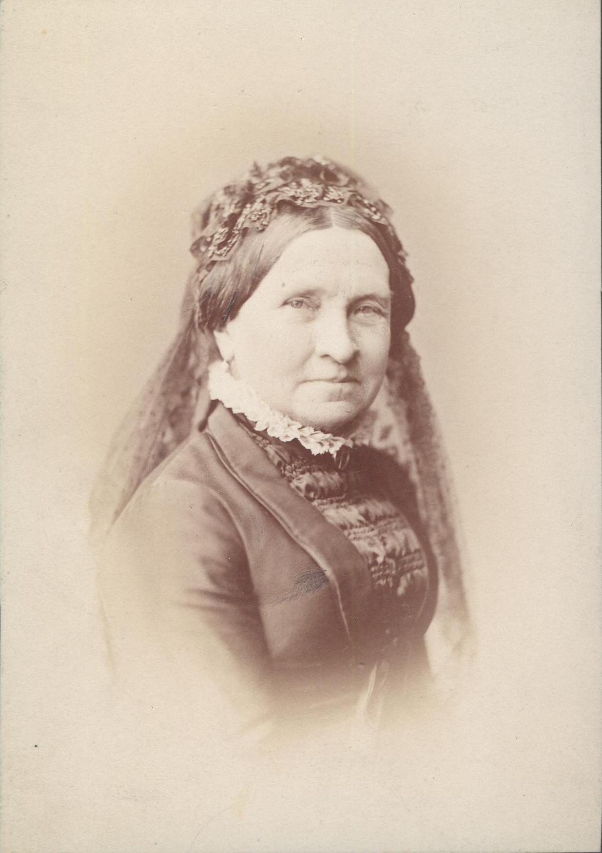 Julia Hauke, Princess of Battenberg (1825-1895) in Darmstadt.